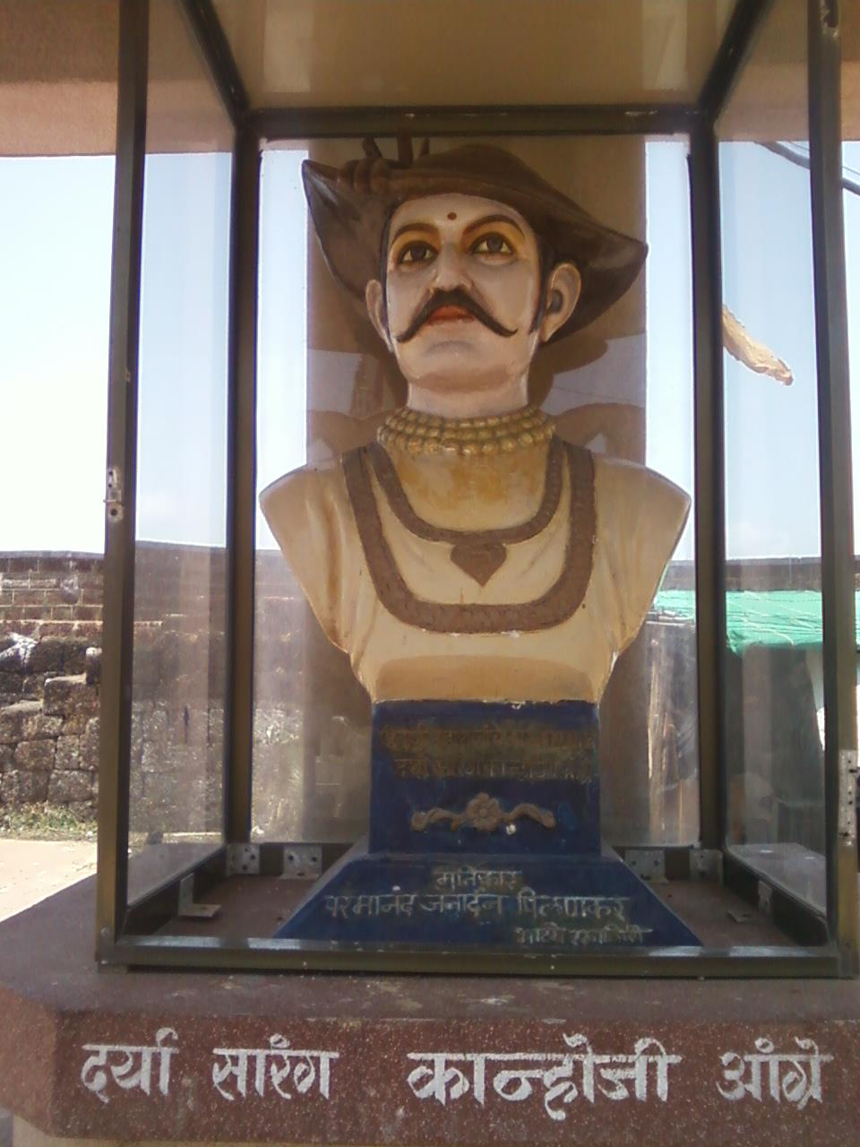 Sarkhel (Admiral) Kanhoji Angre. Admiral of Maratha Navy : 1698 - 1729 Kanhoji_Angre सरखेल कान्होजी आंग्रे मराठा आरमाराचे सर-सुभेदार : १६९८ - १७२९ कान्होजी आंग्रे